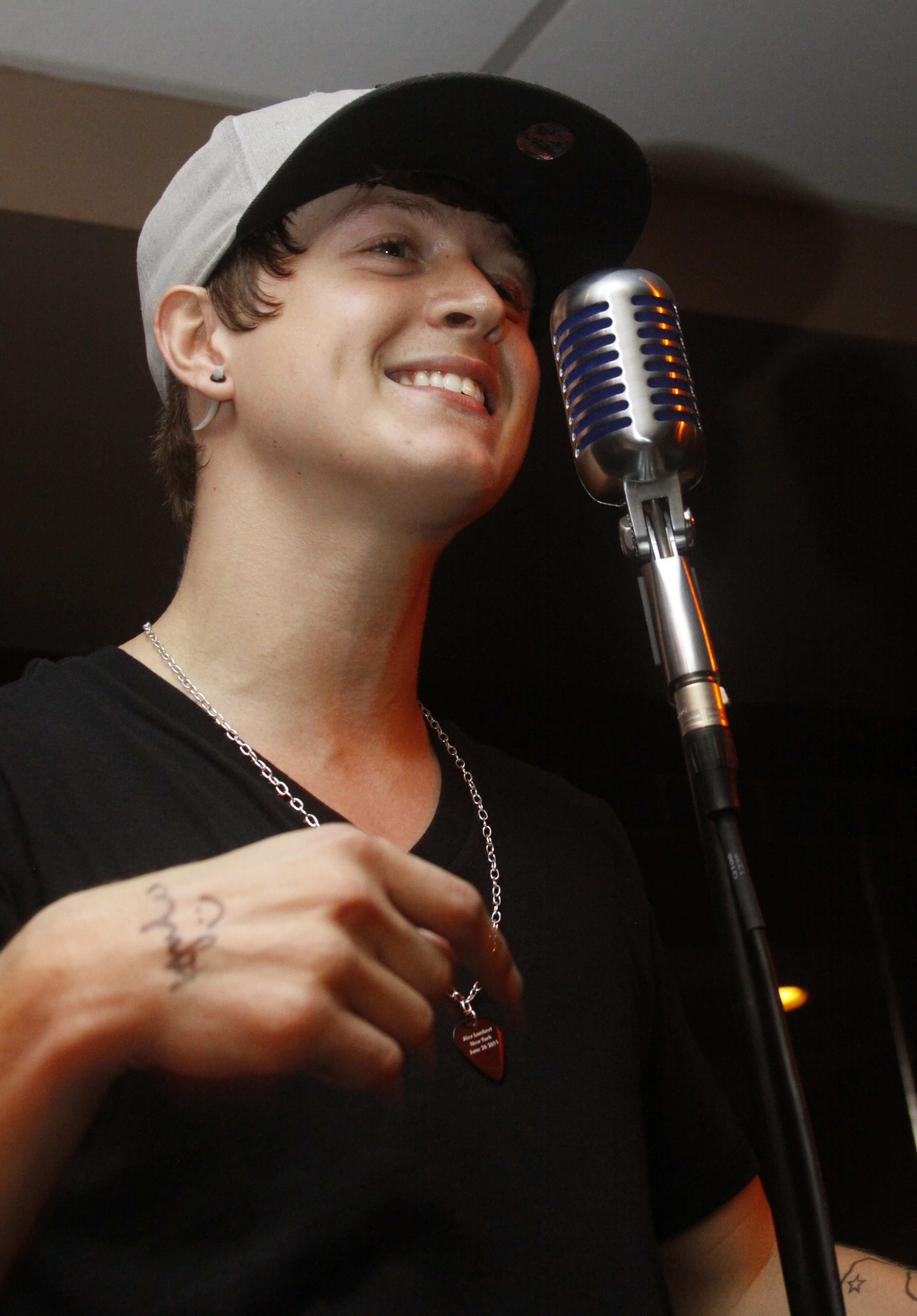 Alex Lambert performs at Smith's Bar in New York City. Photo by Nick Distaso